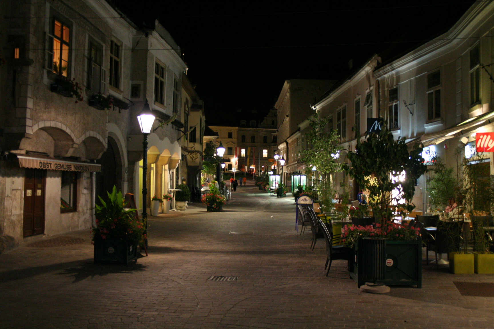 Fußgängerzone (pedestrian zone) in Mödling.